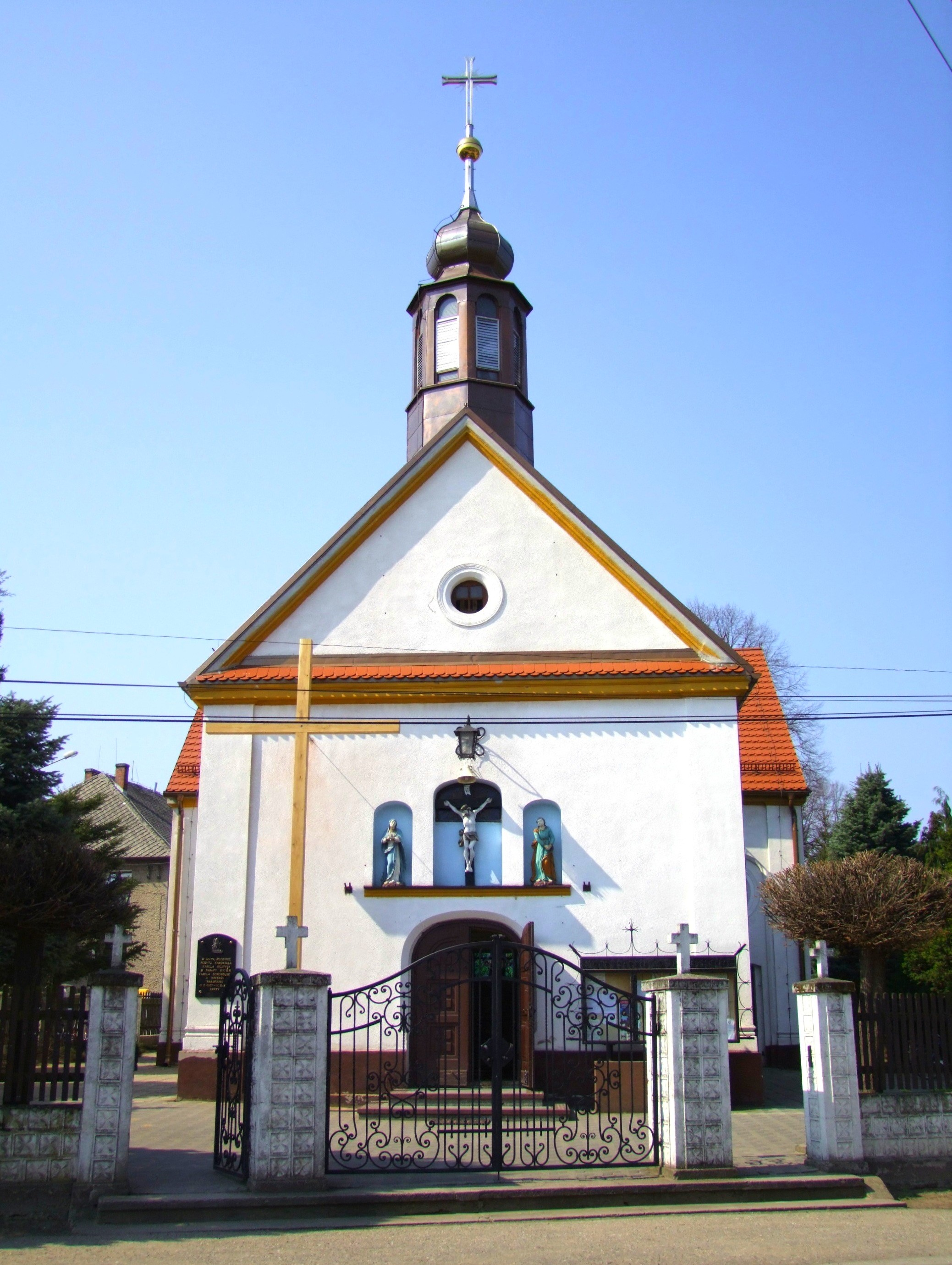 Karol Boromeusz Church in Kryry